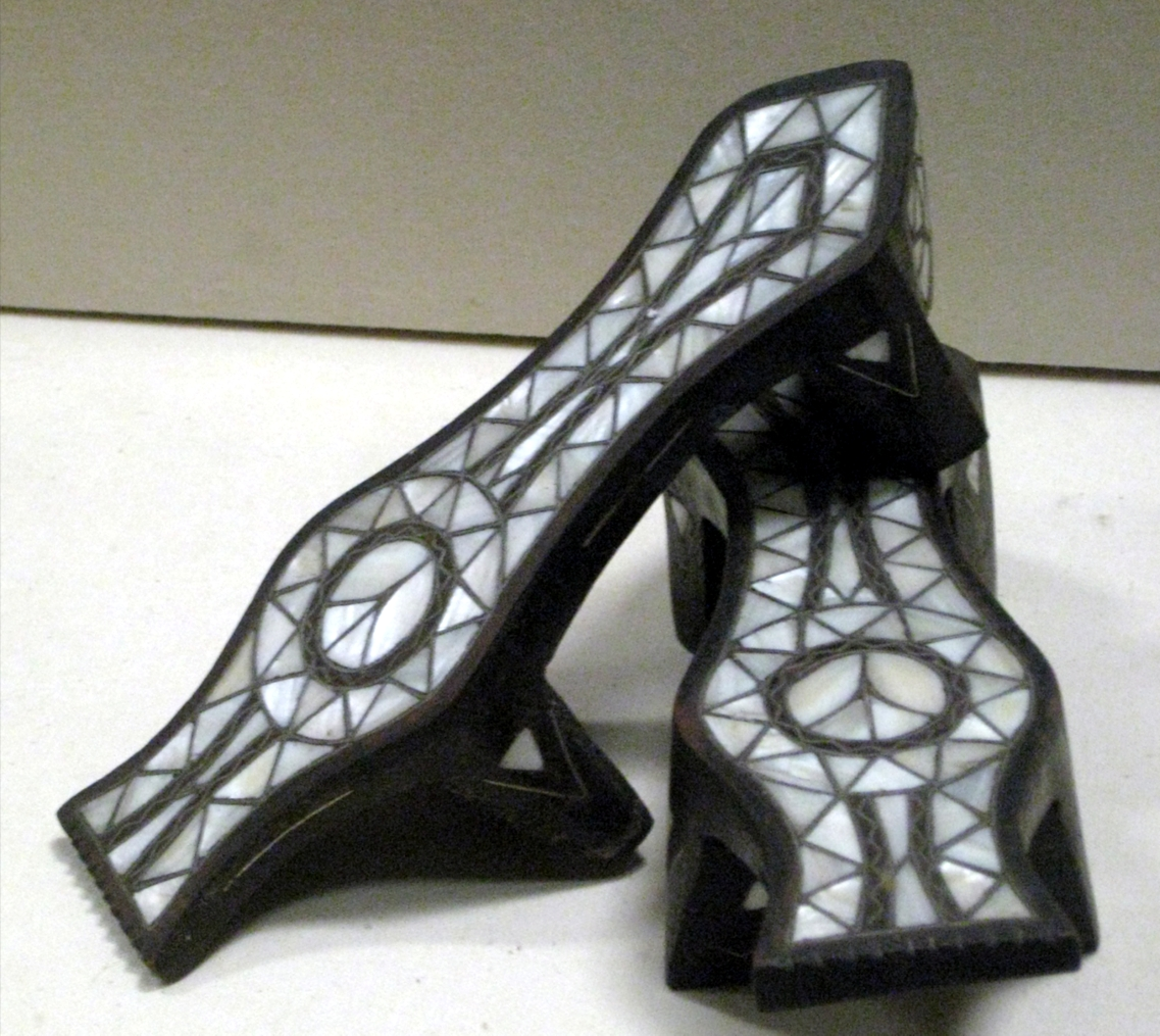 Ancient turkish shoes for bathes.